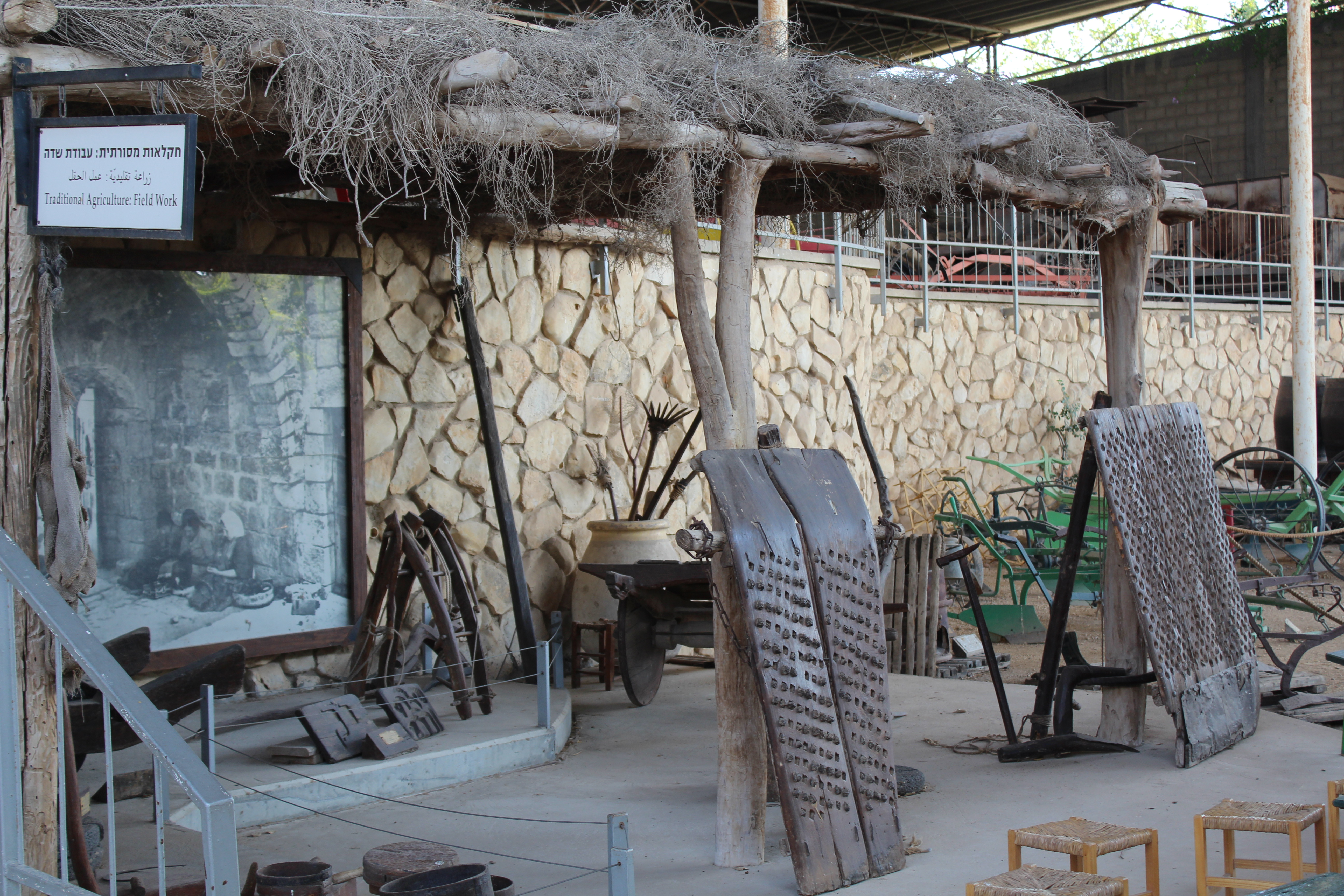 The Museum of Pioneer Settlement, Kibut Yifat The site's ID in Wiki Loves Monuments photographic competition is 6-0134-001